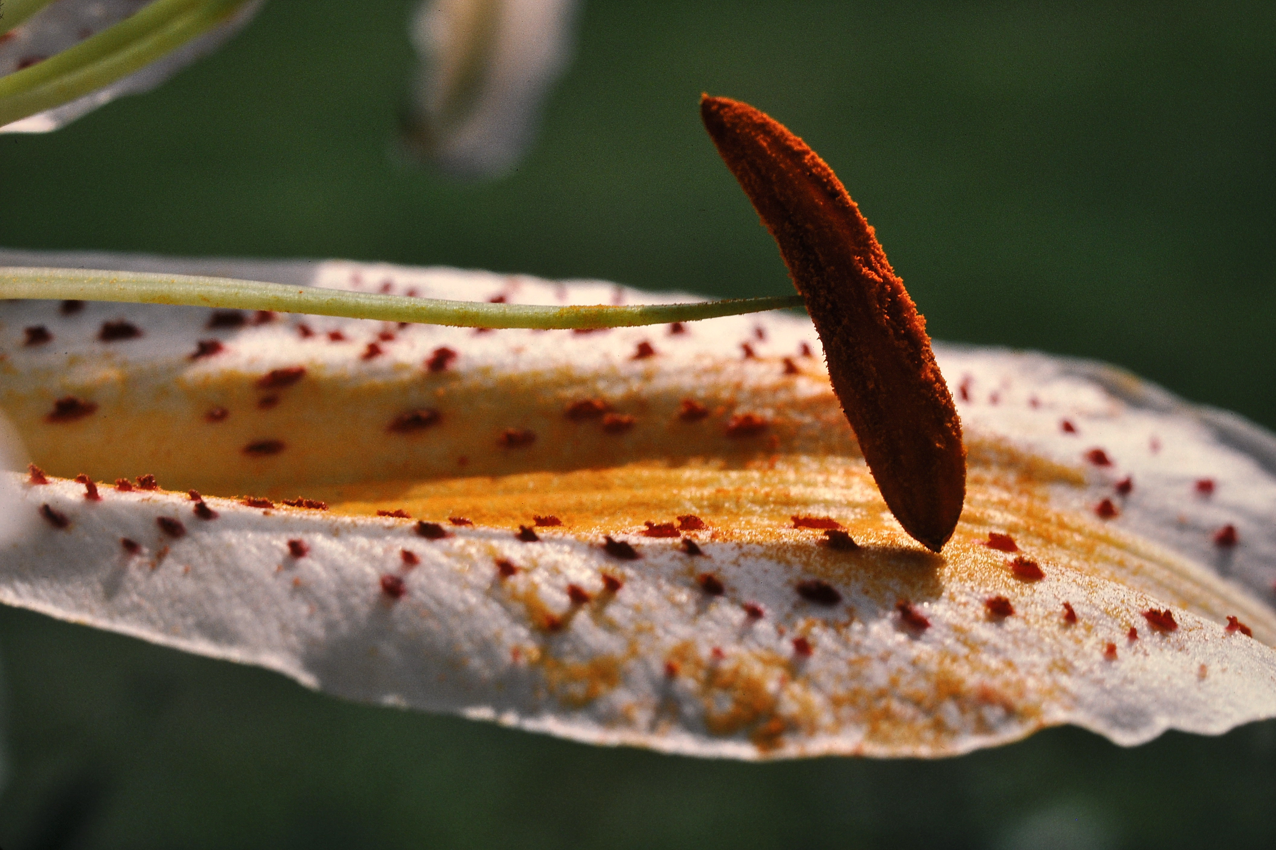 Lily,petal and pollen